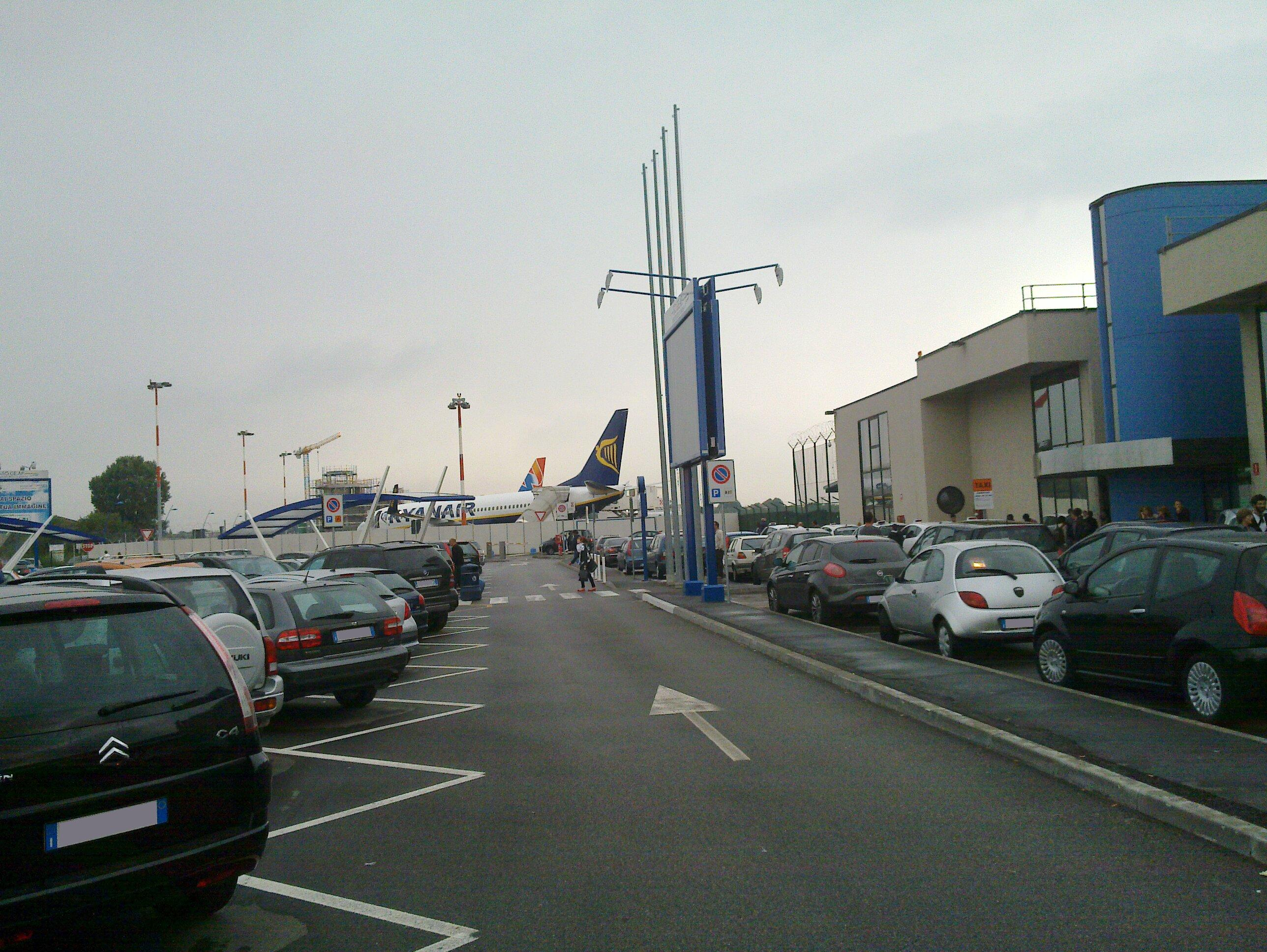 Parma airport. View, from the parking, of the entry and the parking of aircraft with an Wind Jet's Airbus A-320 and a Ryanair's Boeing 737-800